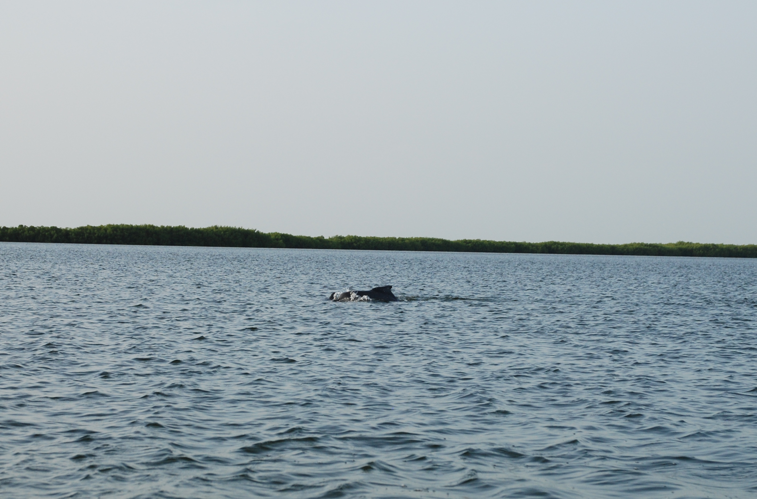 Atlantic humpbacked dolphin photographed in september 2017 in the Saloum delta (Senegal)